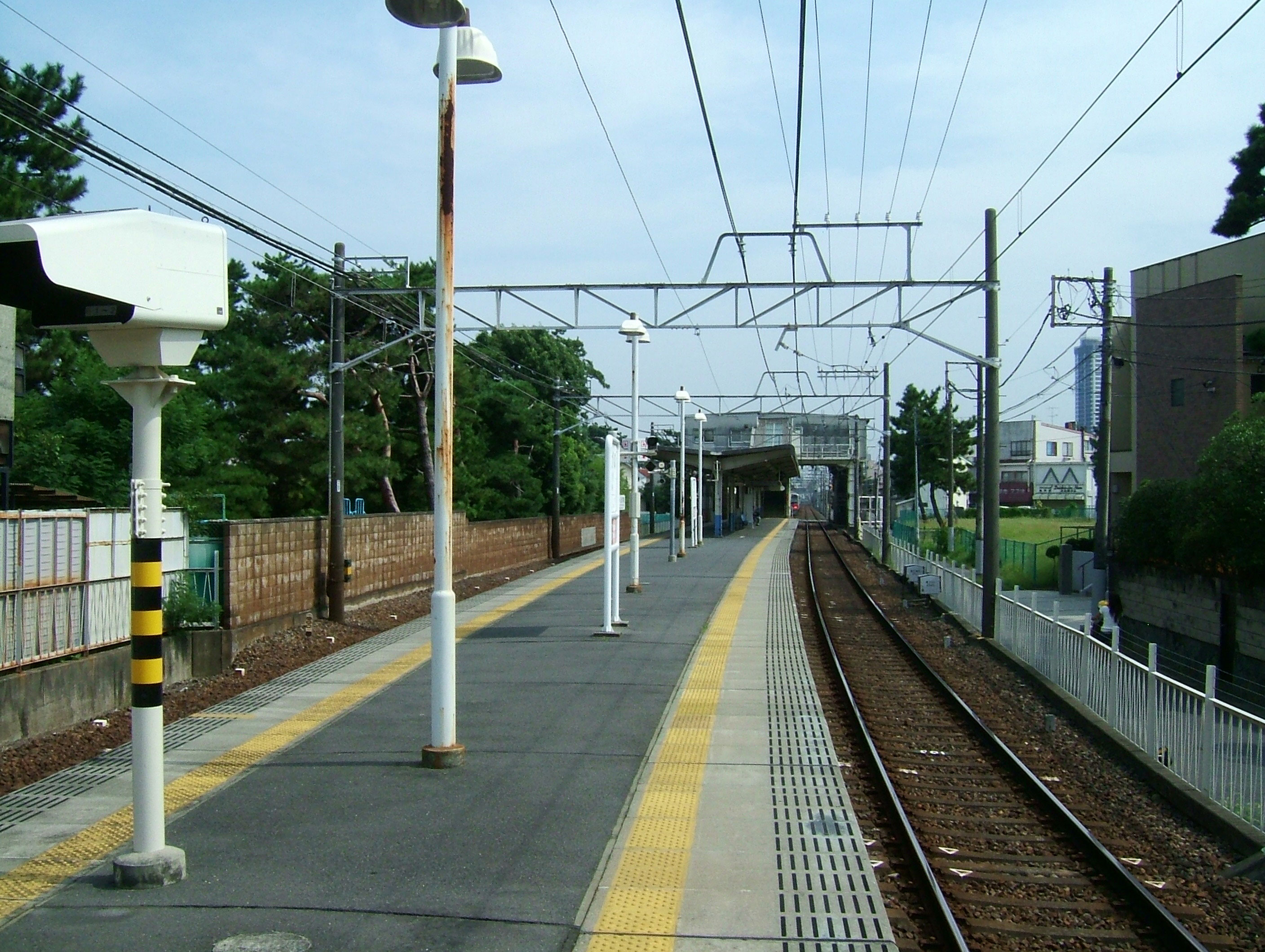 The platform at Sugano Station on the Keisei Main Line in Ichikawa city, Chiba prefecture, Japan